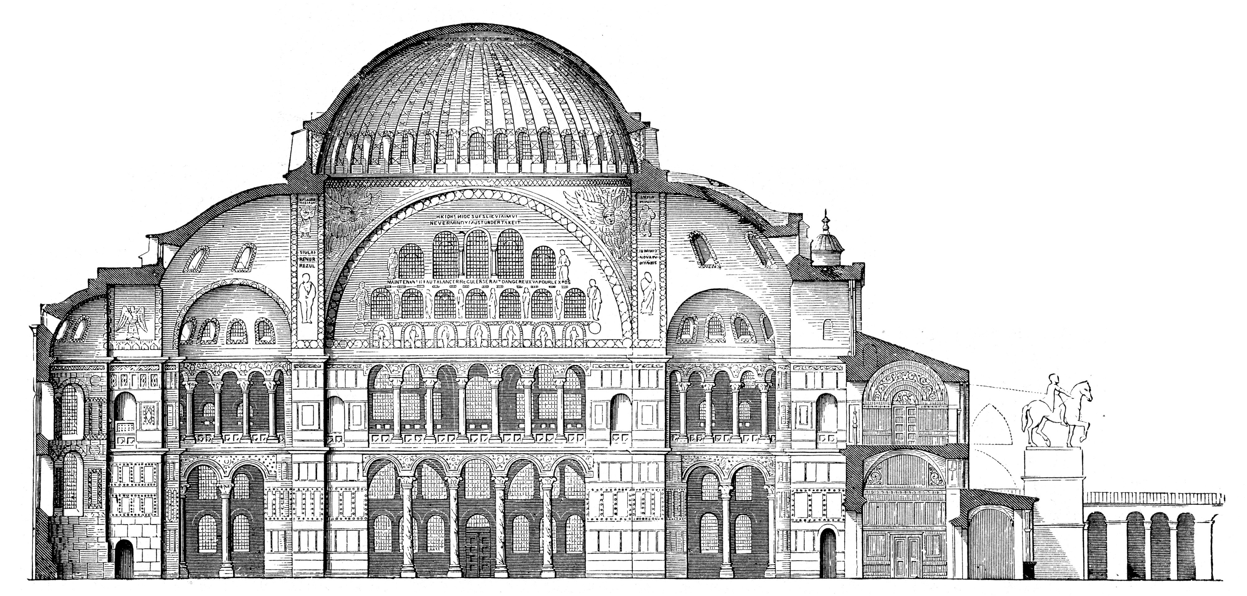 Cross-section of Hagia Sophia, reconstruction